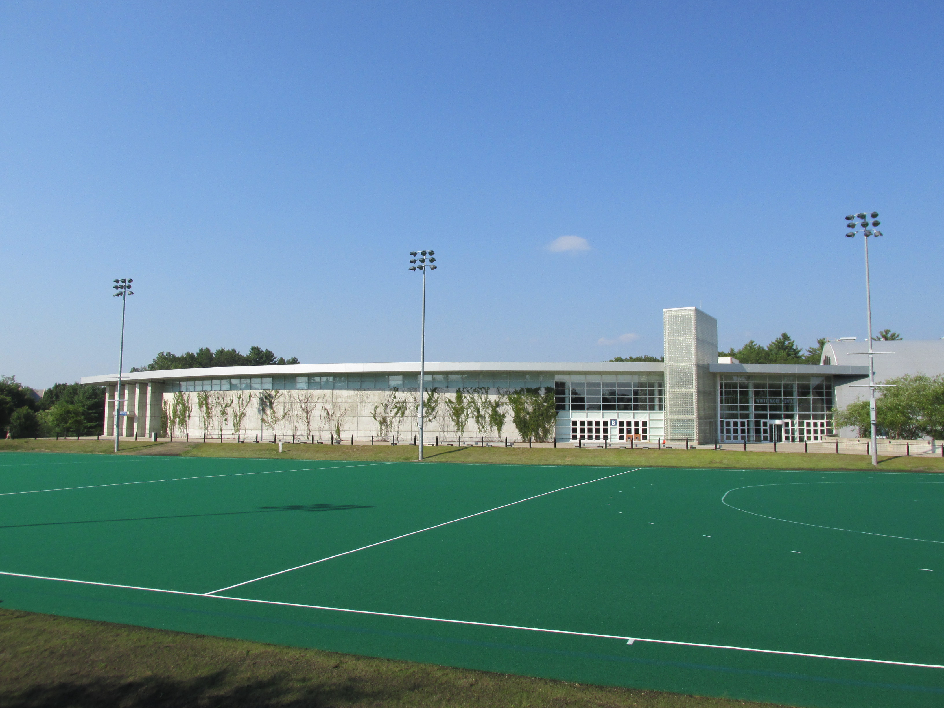 Whittemore Center, UNH, Durham New Hampshire - 2013